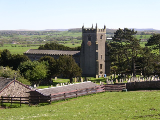 St Oswald's Church, Warton. The oldest part is the 14C south chapel. The tower, chancel and north arcade are in Perpendicular style, so were built in the 15C or 16C. The font was made in 1661 and has a delicately patterned lead lining.